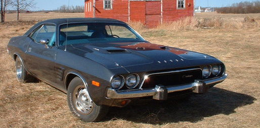 1973 Dodge Challenger Rallye 340 4V w/ Dark Silver Poly exterior and Blue Vinyl Interior.